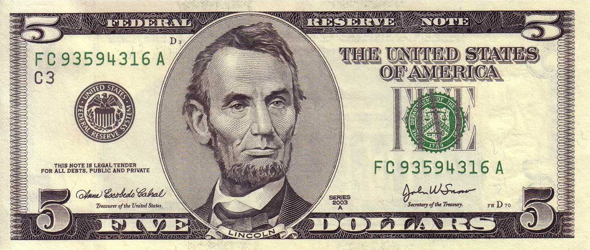 The front of a U.S. five-dollar bill, 2003 (A) series.